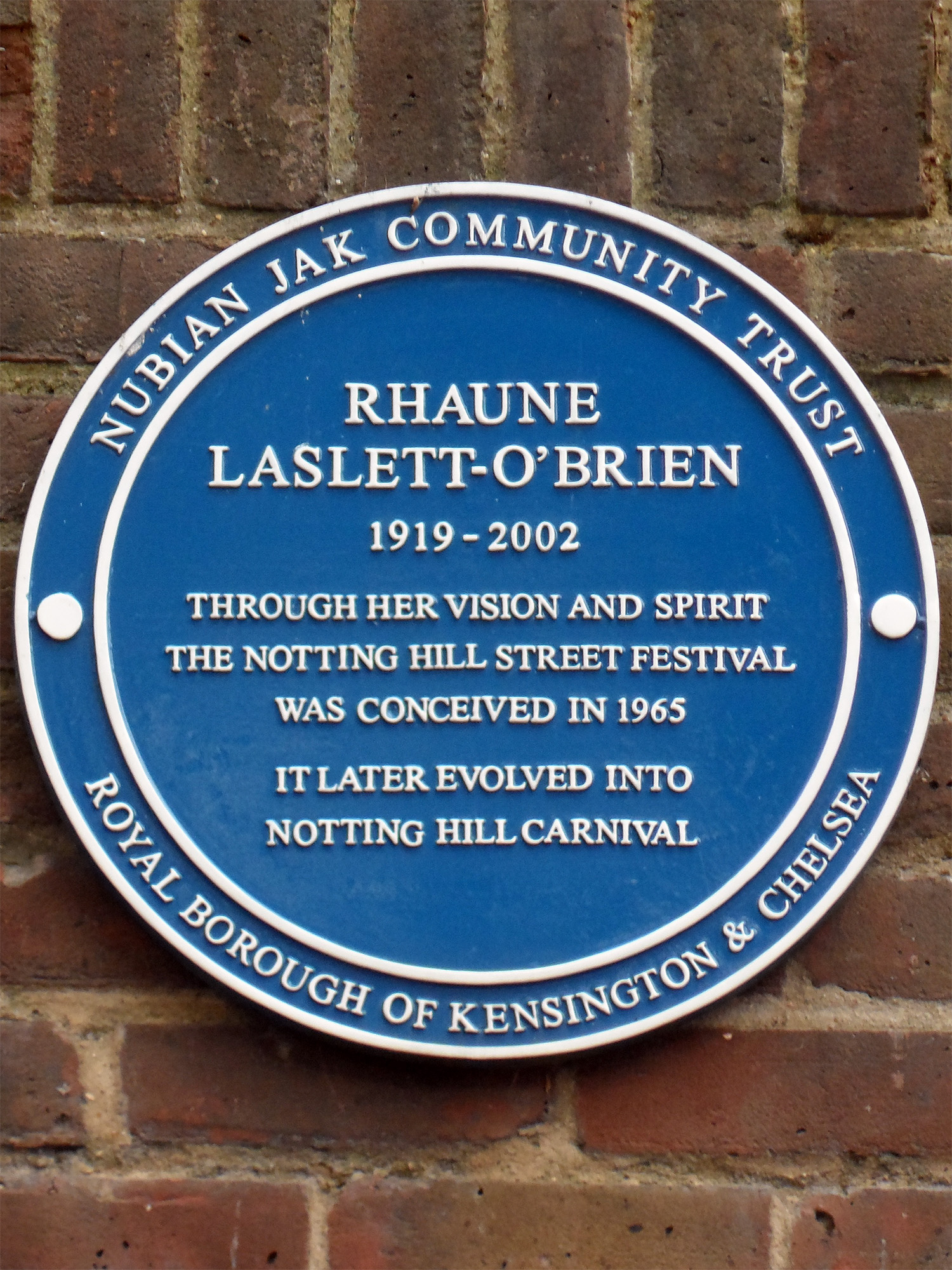 Blue plaque erected by Nubian Jak Community Trust on the corner of Tavistock Road and Portobello Road, London W11